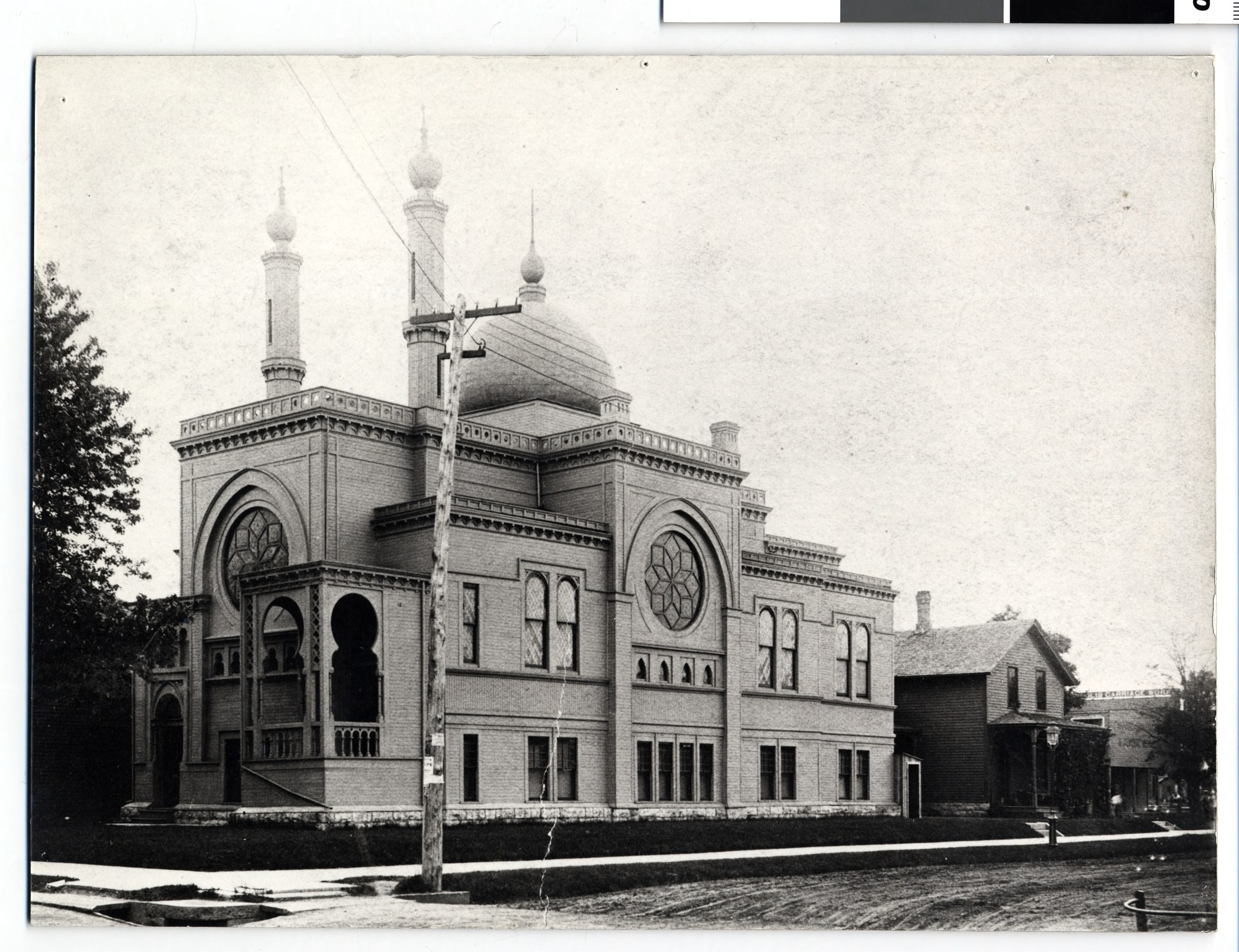 A photograph of the front exterior of the Temple Israel synagogue. The Temple Israel Congregation was incorporated as Congregation Shaarei Tov in 1879. This building occupied 501-503 10th Street South in Minneapolis.